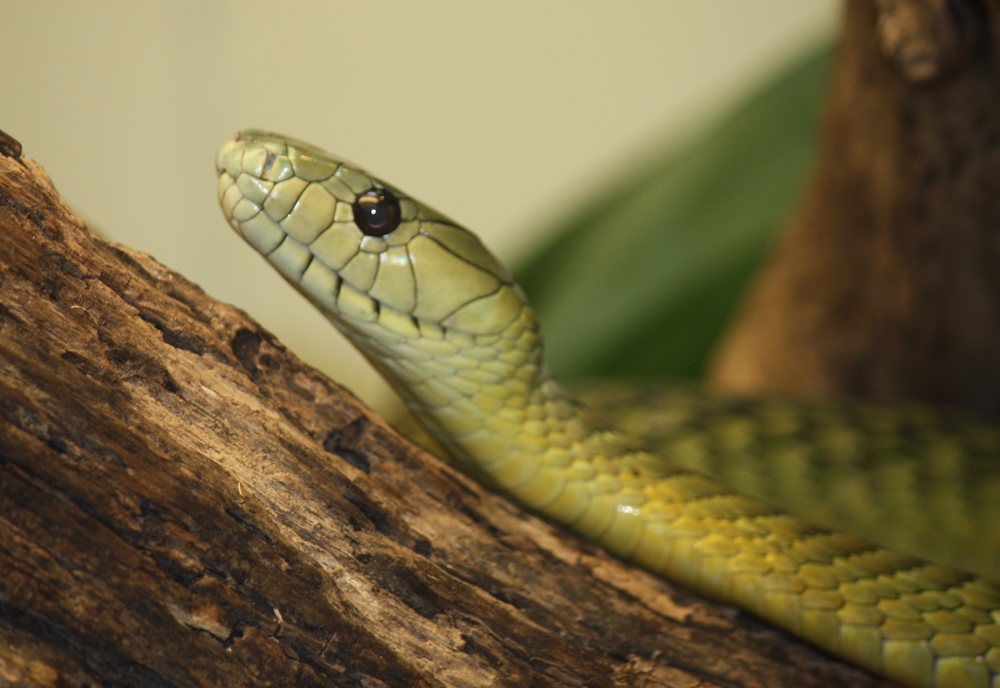 Jameson's Mamba Dendroaspis jamesoni at Cincinnati Zoo